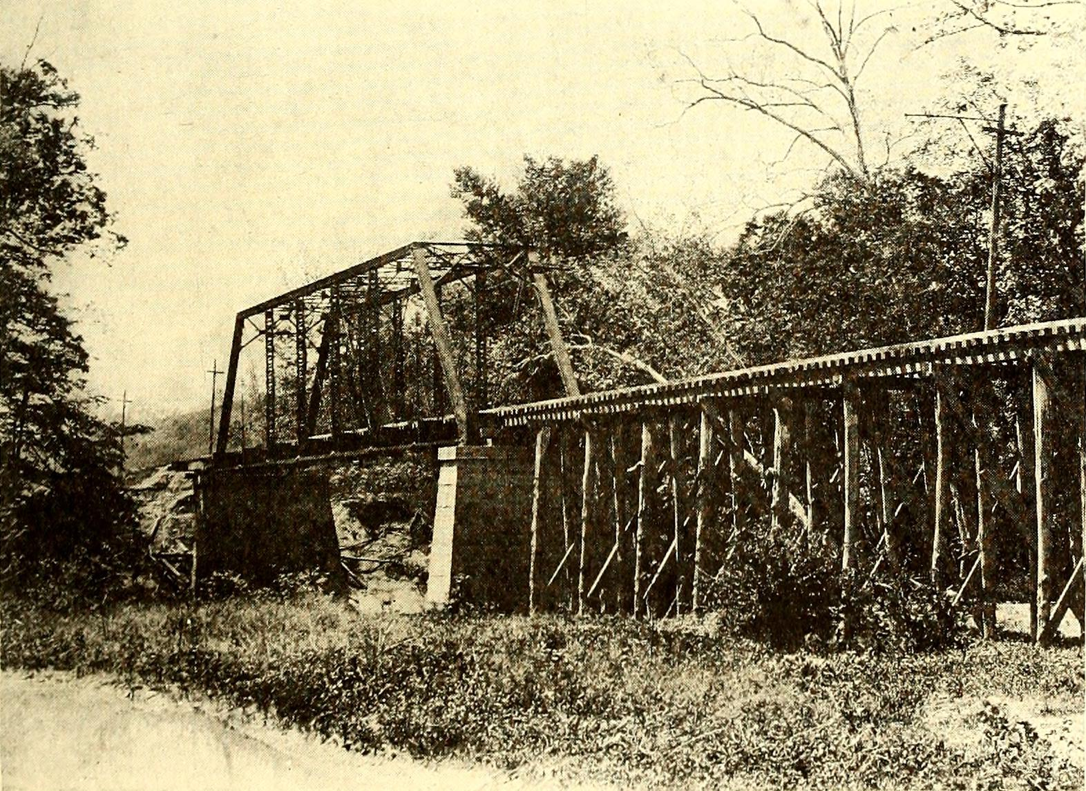 Title: The Street railway journal Year: 1884 (1880s) Authors: Subjects: Street-railroads Electric railroads Transportation Publisher: New York : McGraw Pub. Co. Text Appearing Before Image: A PICTURESQUE SPOT ON THE EVANSVILLE & EASTERNTRACTION SYSTEM direction. The feeders continue at this size to points 5miles from the station where they are reduced in size to350,000 circ. mil. These smaller feeders are carried towithin 1 mile of the ends of the line. Text Appearing After Image: ONE OF THE TWO STEEL BRIDGES ON THE EVANSVILLE TRACTION SYSTEM of the line, at Hartfield. It is a brick structure, divided intoa boiler and engine room by a transverse wall. The boilerroom contains two 300-hp B. & W. boilers served by onesteel stack. In the engine room are installed two 375-kw REPAIR SHOPS A brick repair shop adjacent to thepower house at Hatfield containsthree storage tracks and space alongone wall for the installation of re-quisite machinery. CAR EQUIPMENT The road is equipped with five pas-senger cars built by the AmericanCar Company. The cars are 46 ft.long over all, 9 ft. wide and seat forty-eight people. The inside finish is darkoak. All are built with a small bag-gage compartment at one end and areintended for double-end operation.They are equipped with four West-inghouse 101-J motors of 50 hp each,and these are mounted on 21 E-iBrill trucks. K-14 controllers areused. The cars are provided withWestinghouse Traction Brake Com-pany straight air brakes, and Pe